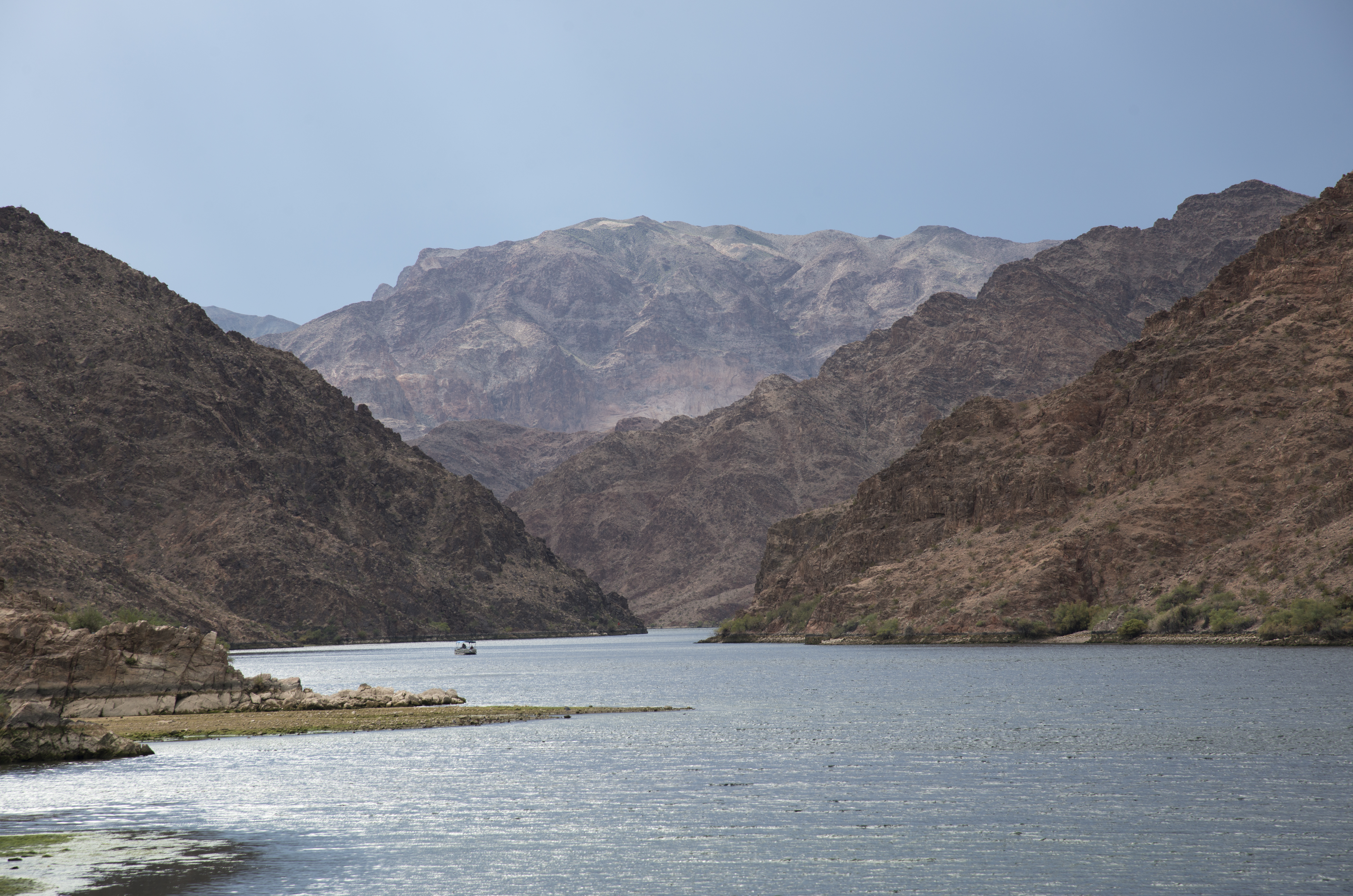 On the Colorado River, a few miles below Hoover Dam. Note: The view from Willow Beach area (Arizona, east side of river). The view is downstream and westwards (the river stretch is southwest-trending, then turns south). The ridgeline & peak is in the north section of the Eldorado Mountains (east flank), viewed from east.